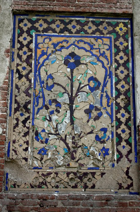 Chauburji This is a photo of a monument in Pakistan identified as the PB-46